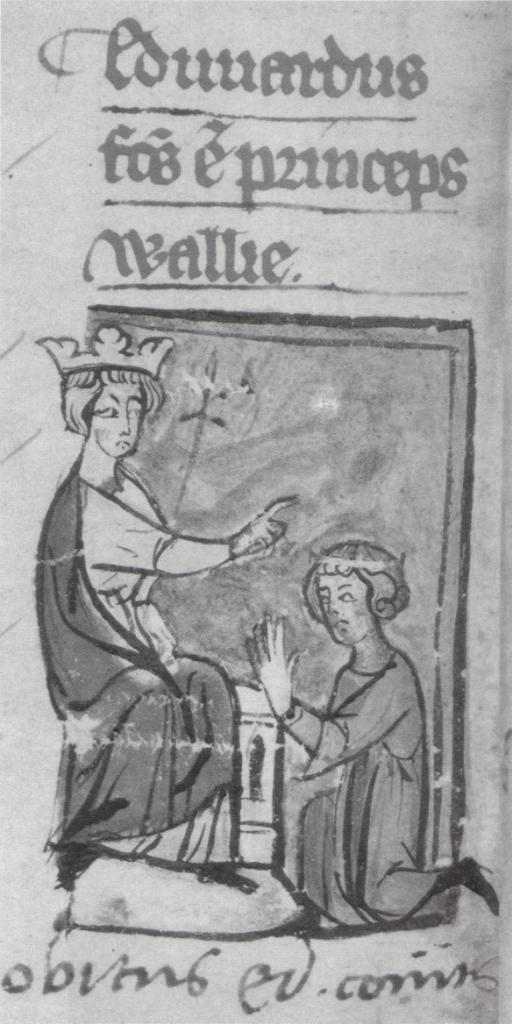 Edward I creating his son, the later Edward II, prince of Wales, 1301. Text reads "Eduuardus factus est princeps Wallie" (Edward is made prince of Wales).